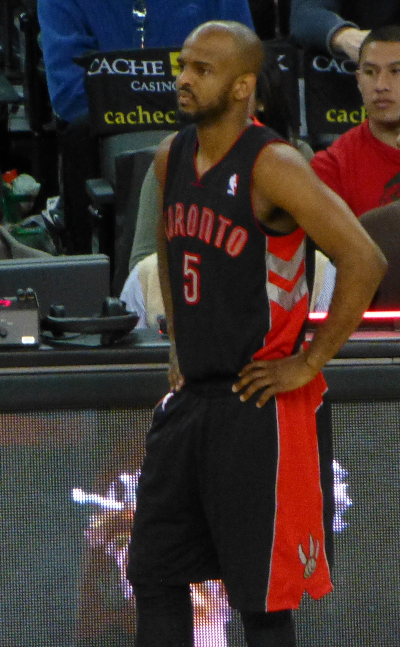 John Lucas III, Toronto Raptors at Golden State Warriors March 4, 2013